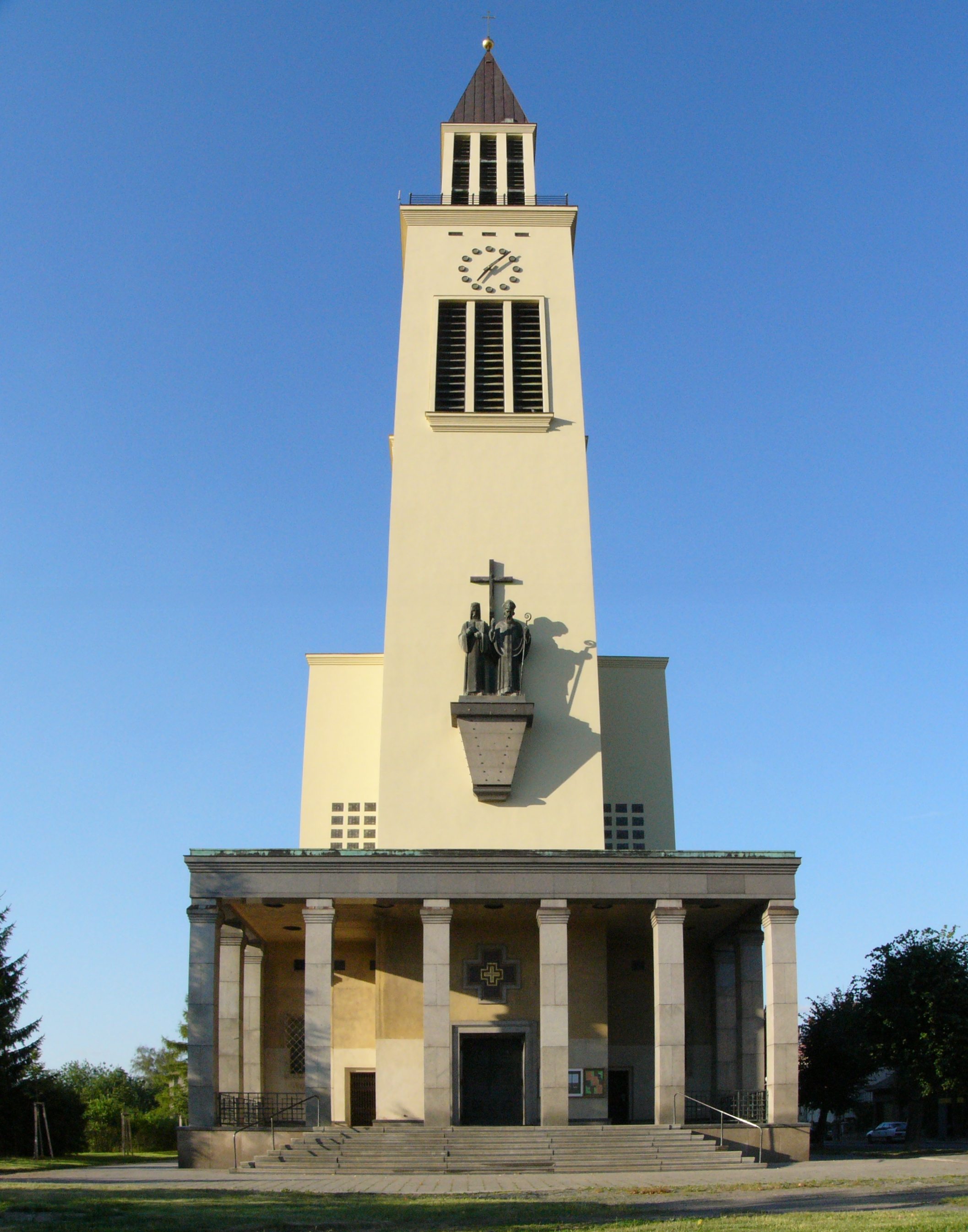 Church kostel sv. Cyrila a Metoděje in Olomouc (Czech Republic) - view from west.